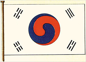 The earliest surviving depiction of the flag of Korea, as published in a U.S. Navy book Flags of Maritime Nations in July 1882.